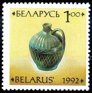 Stamp of Belarus